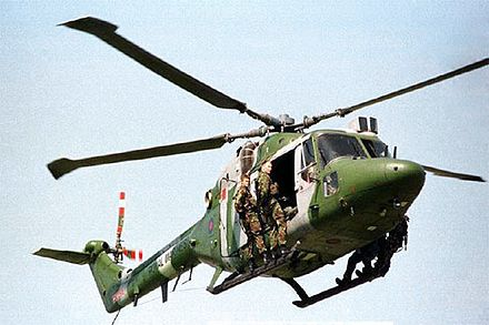 Lynx Mk7 Royal Marines transporting 4 Soldiers outside the cabin